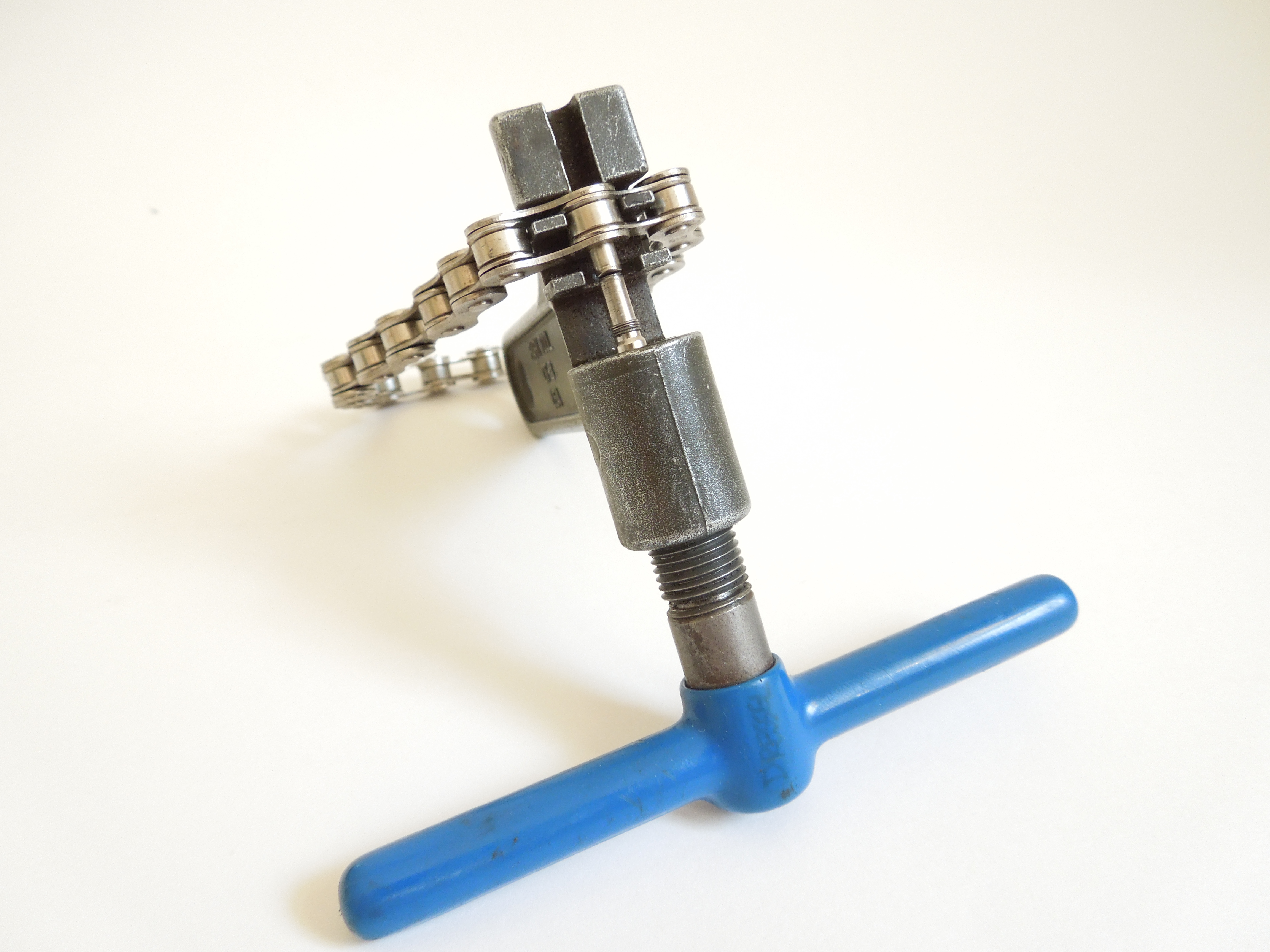 Assembling a bicycle chain with a chain tool